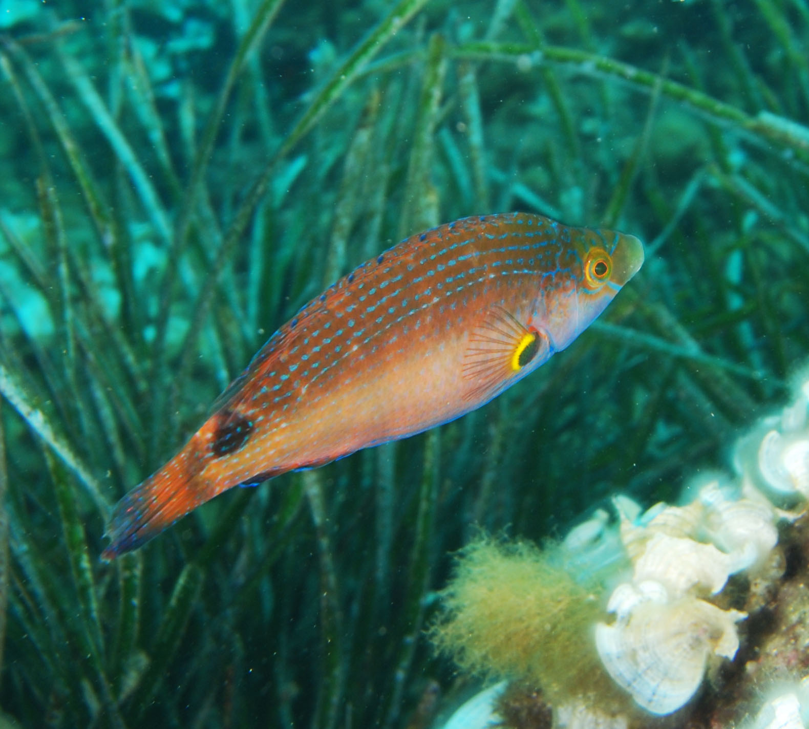 Symphodus mediterraneus